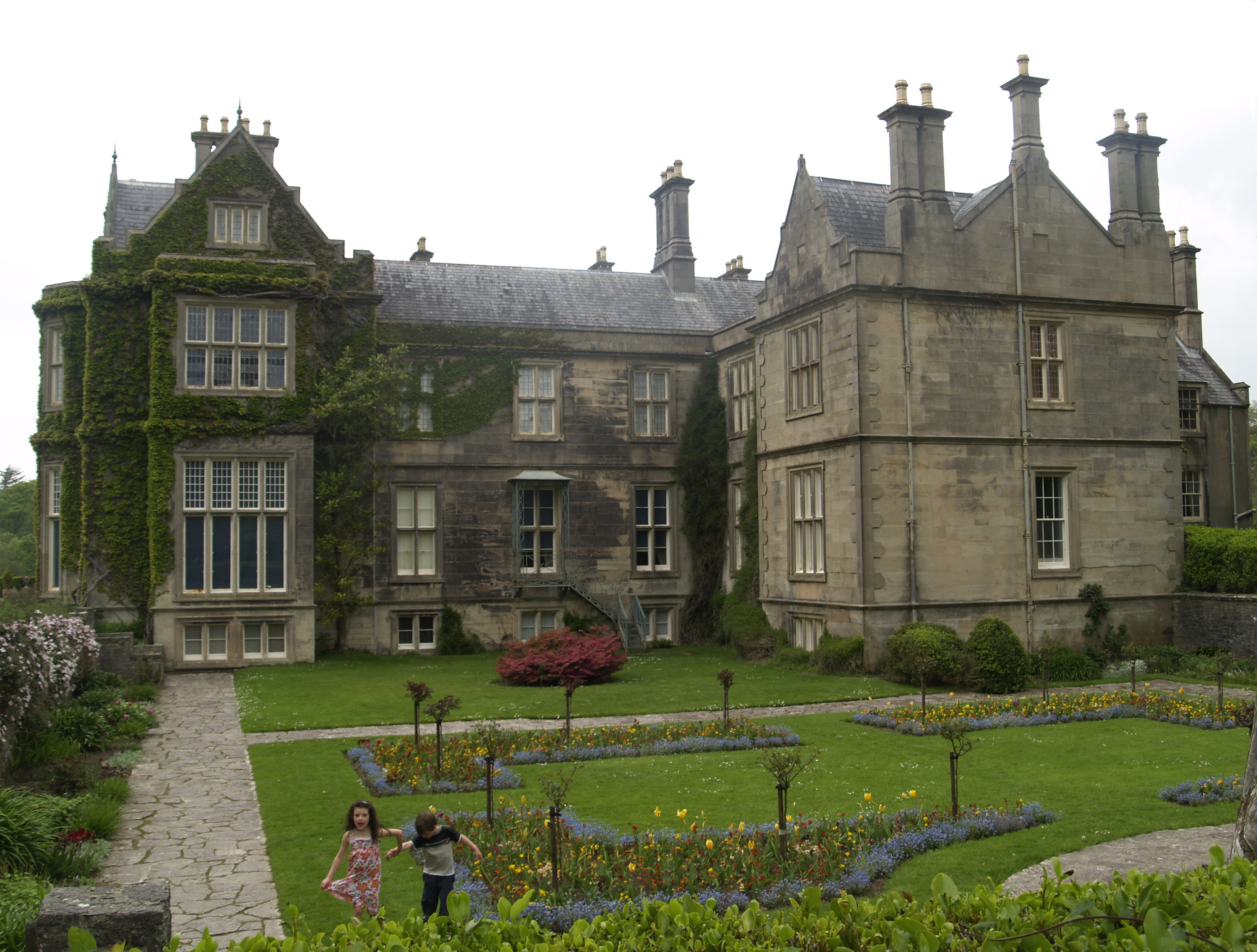 Muckross house side view